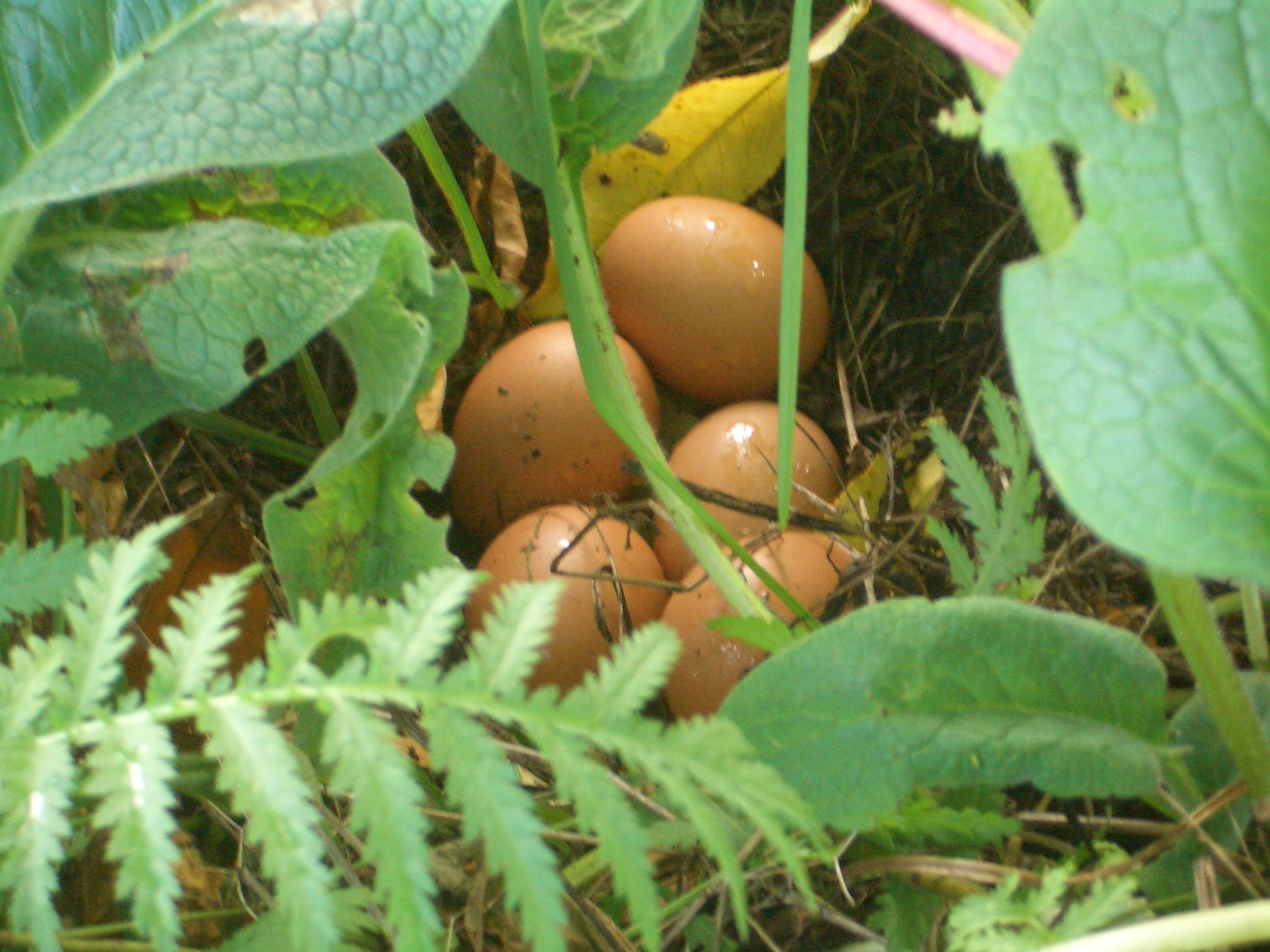 Eggs laid by free-range chickens, who found a convenient place under a tree. (At a family organic farm in Bruthen, Victoria)